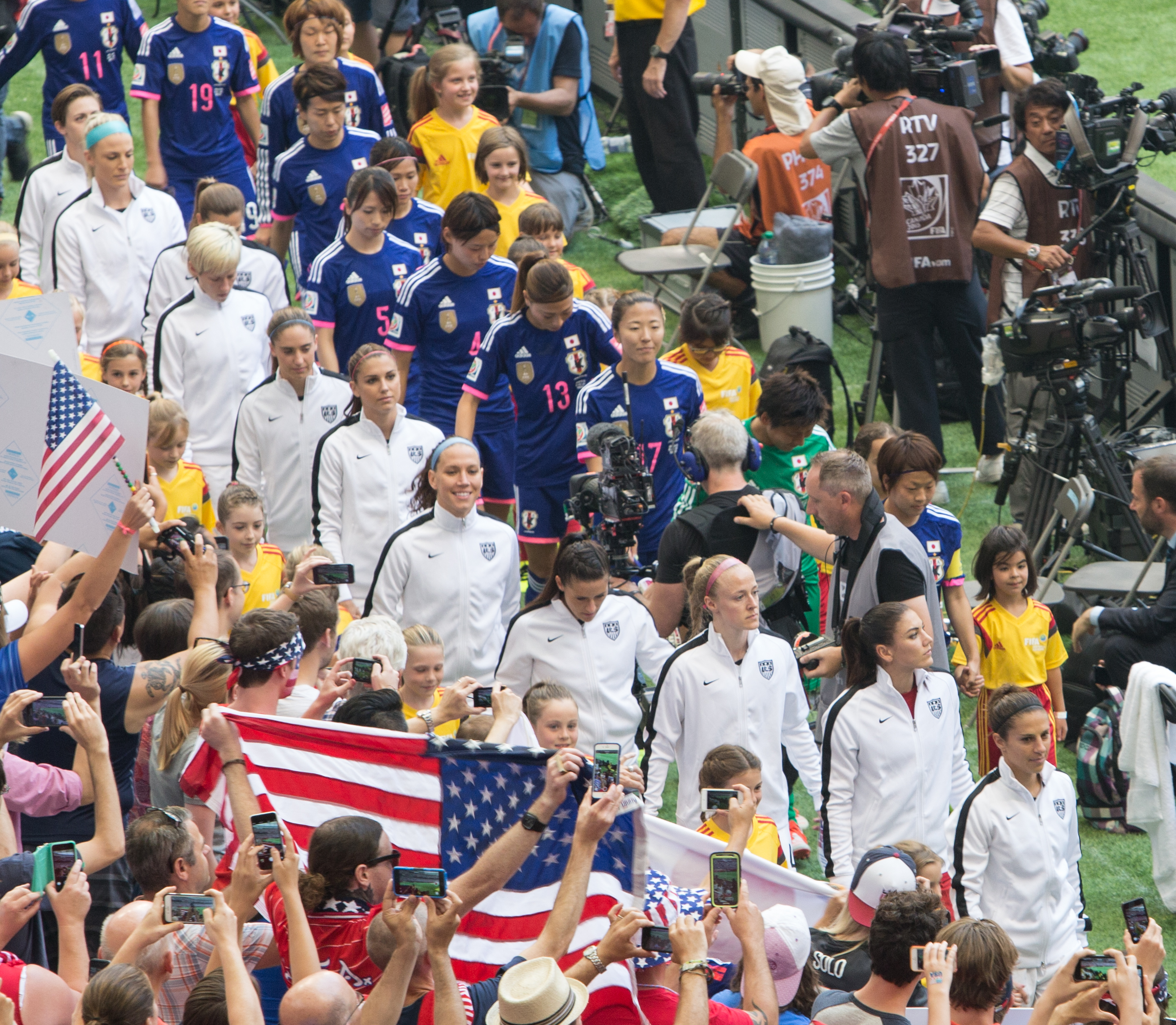 Here they come